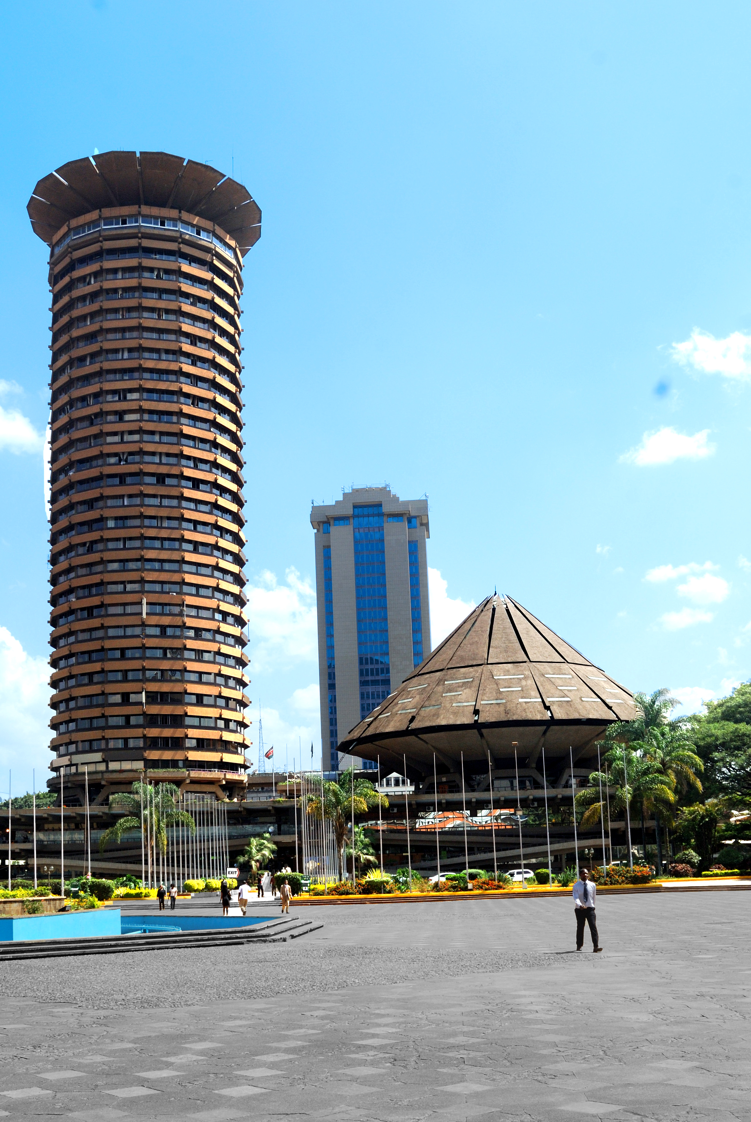 Kenyatta International Conference Center